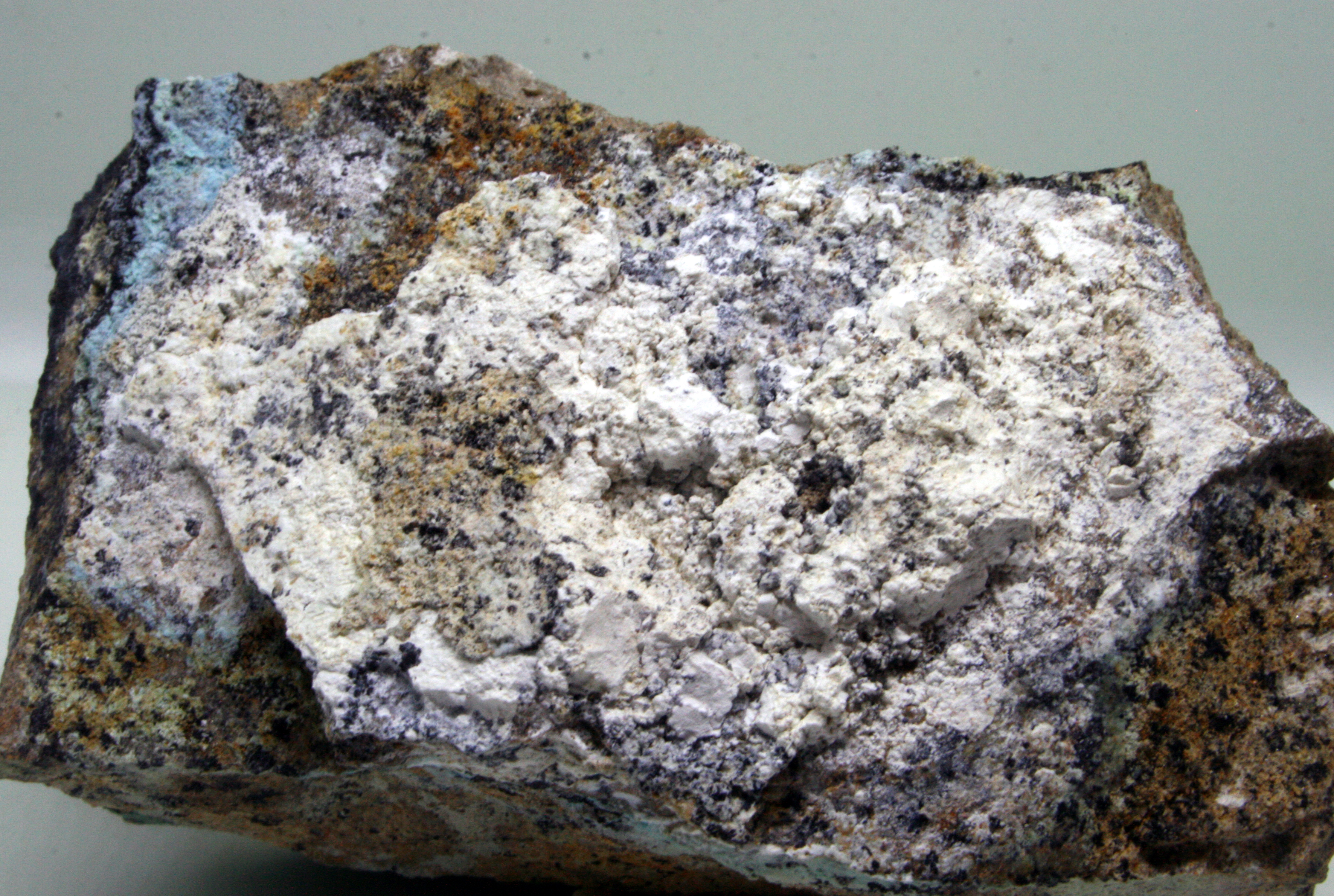 Specimen of the mineral scarbroite (white) with allophane (blue). Roadcut in the road to San Pedro Manrique, Magaña (Soria) Spain